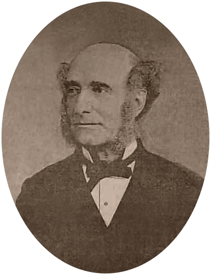 Vincent Robert Alfred Brooks (1815-1885), London based printer and lithographer whose firm took over Day & Son to form Vincent Brooks, Day & Son.